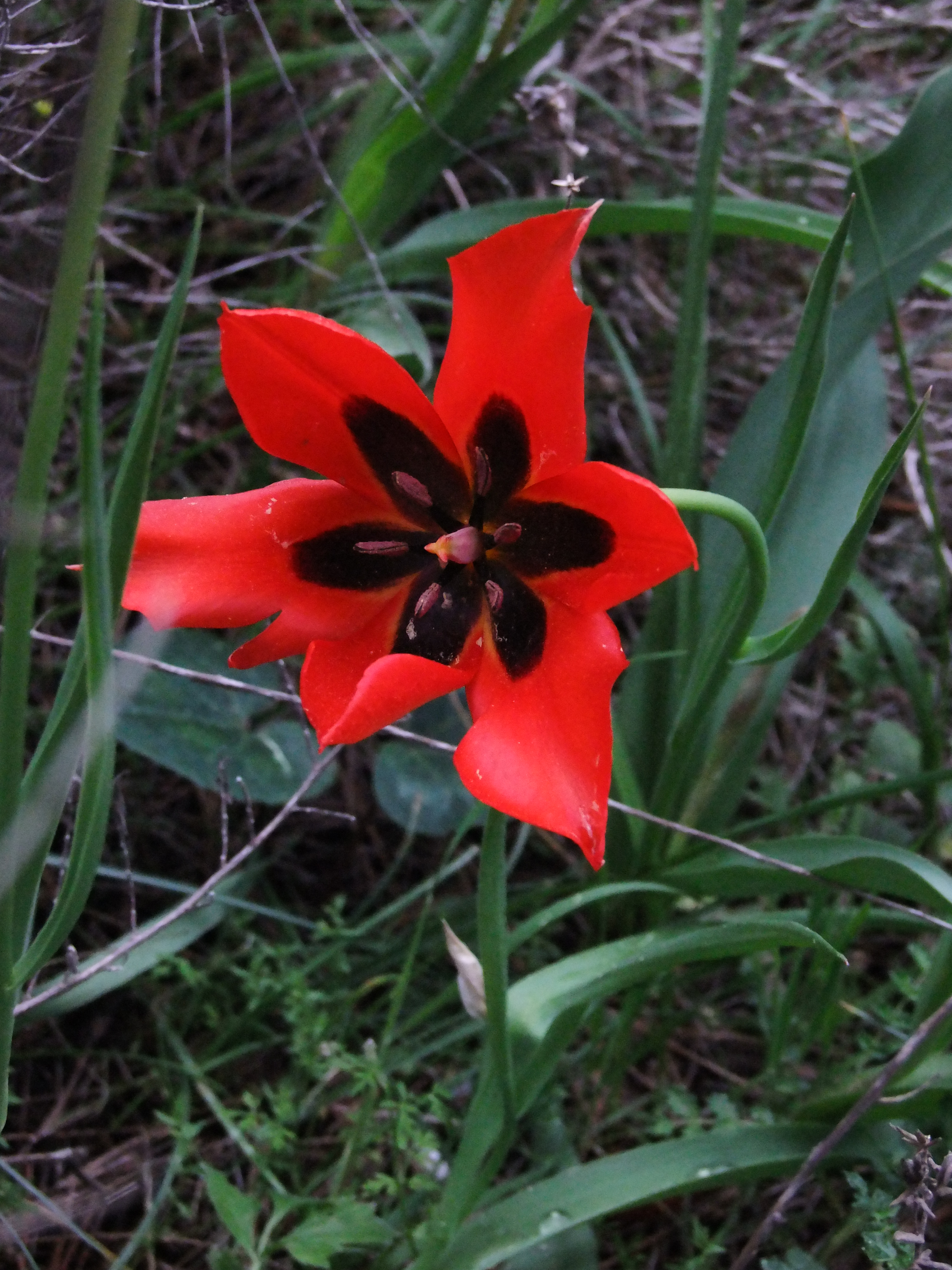 Tulip, Plants of Israel